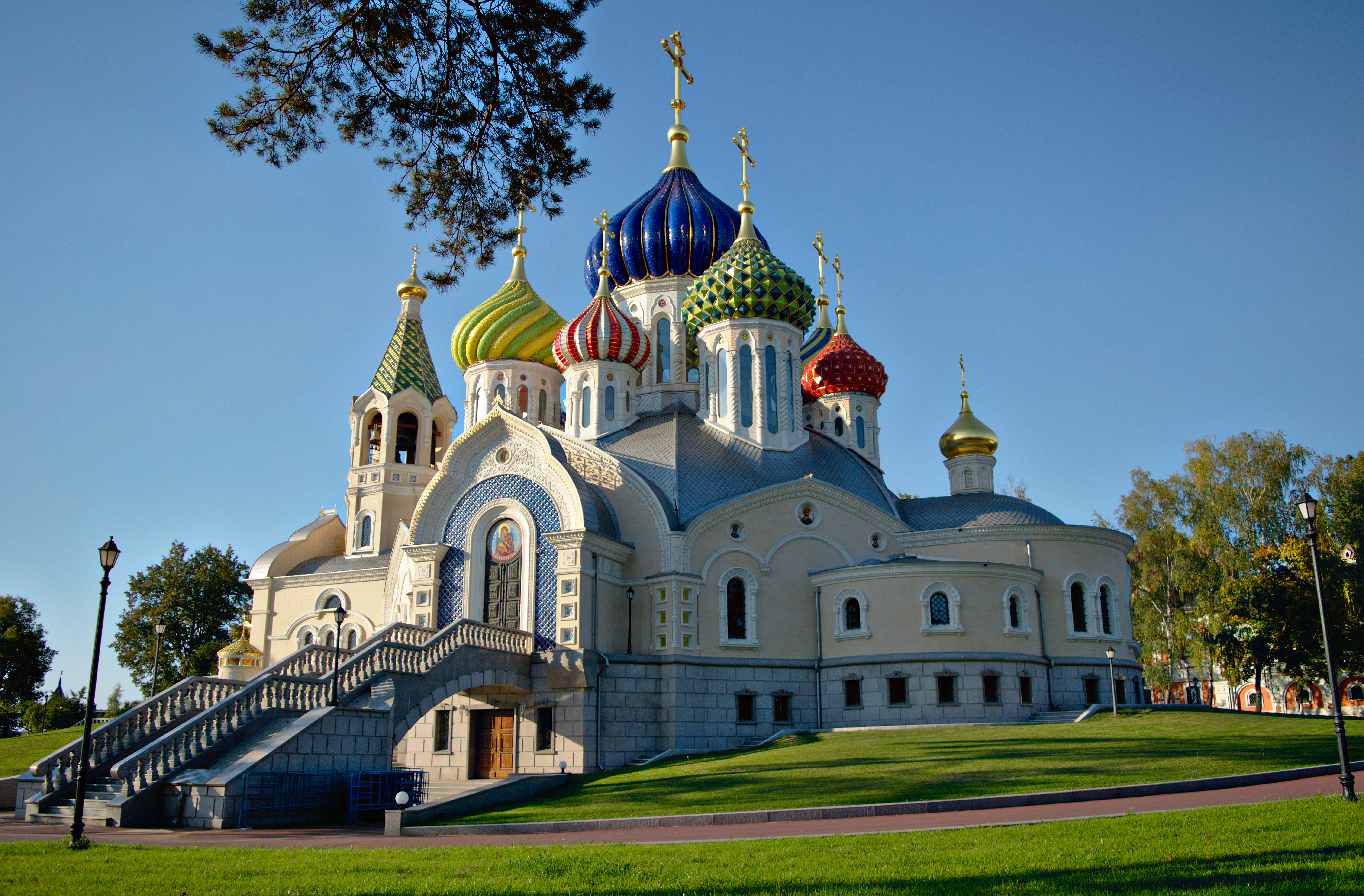 Church of the Holy Igor of Chernigov (Novo-Peredelkino)